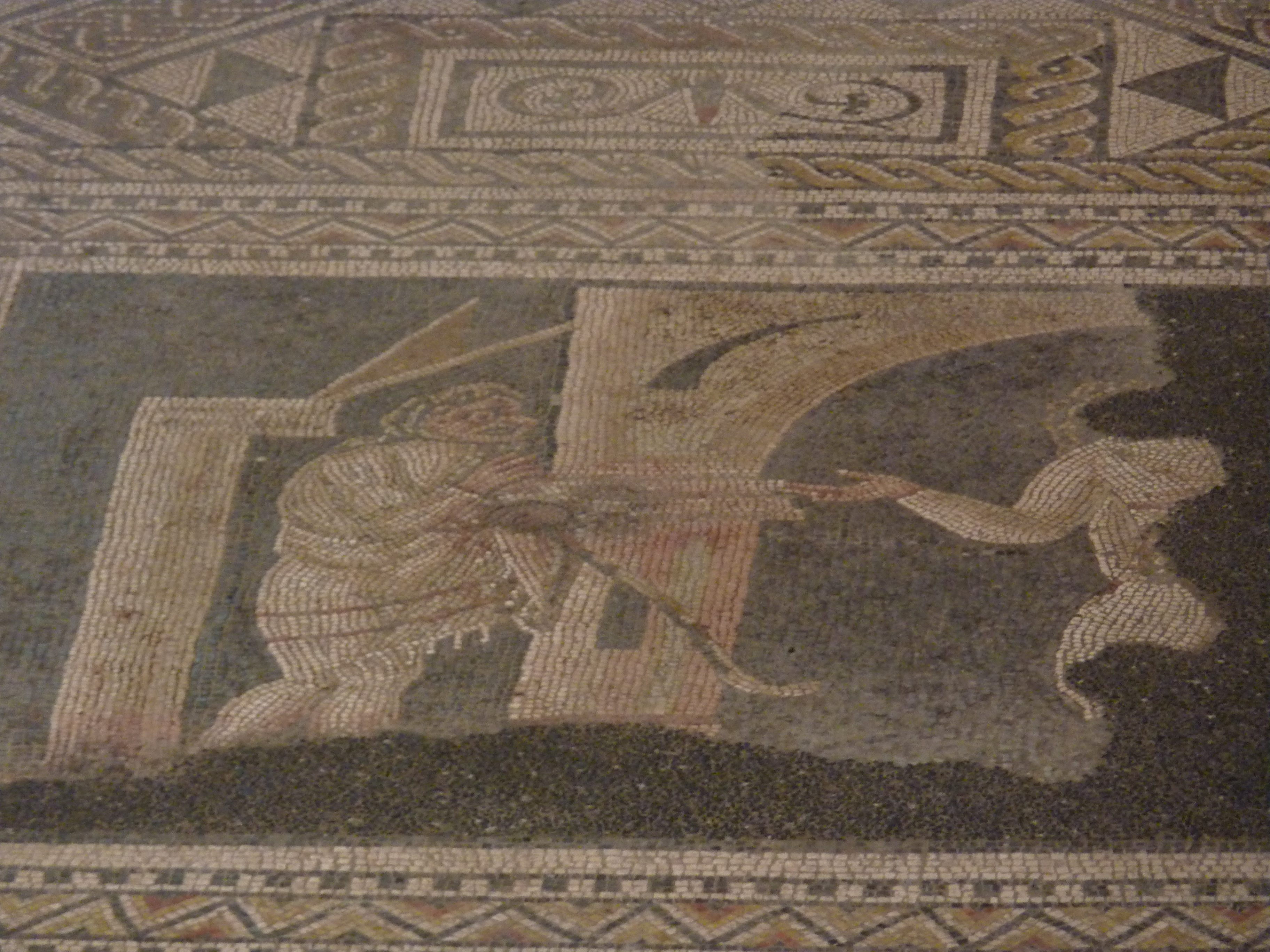 Mosaic of the "basilica", Grand, Vosges, France. Detail of the center scene.